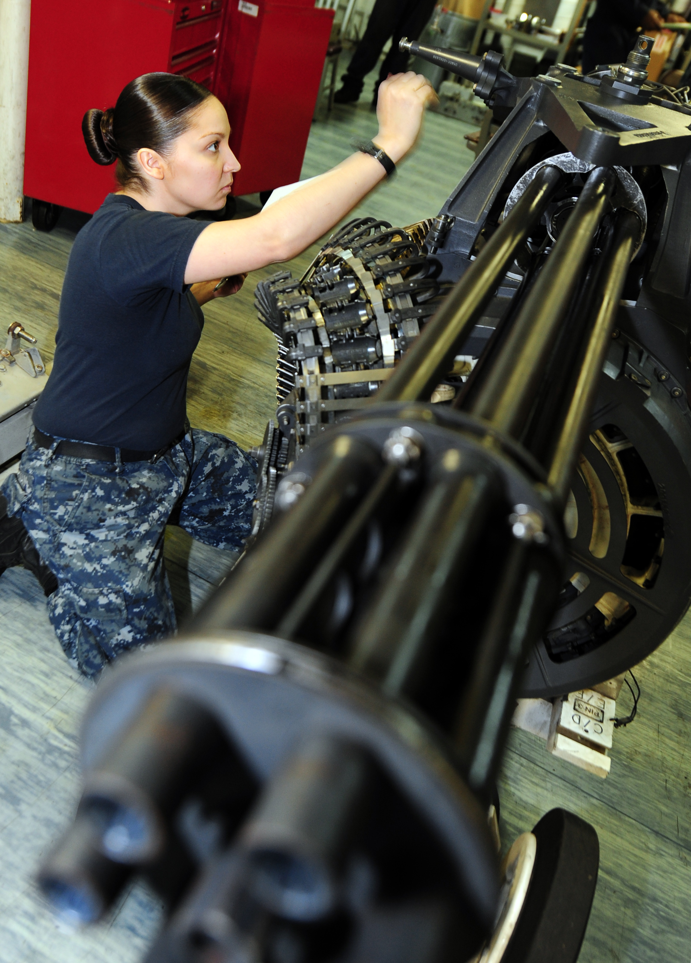 ARABIAN GULF (Oct. 23, 2011) Aviation Ordnanceman Airman Laticia Workman performs an inspection on an M61A-2 Vulcan 20 mm Gatling gun aboard the aircraft carrier USS George H.W. Bush (CVN 77). George H.W. Bush is deployed to the U.S. 5th Fleet area of responsibility on its first operational deployment conducting maritime security operations and support missions as part of Operations Enduring Freedom and New Dawn. (U.S. Navy photo by Mass Communication Specialist 3rd Class Billy Ho/Released)